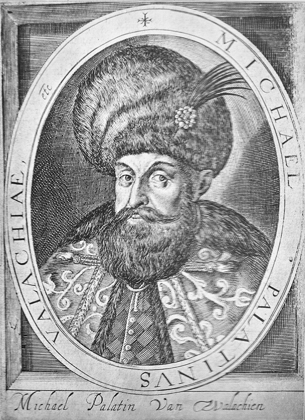 Mihai Viteazul, Dutch copy of the engraving by Umbach-Böner